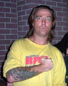 photo of Dave Brockie, lead singer of GWAR (out of costume).